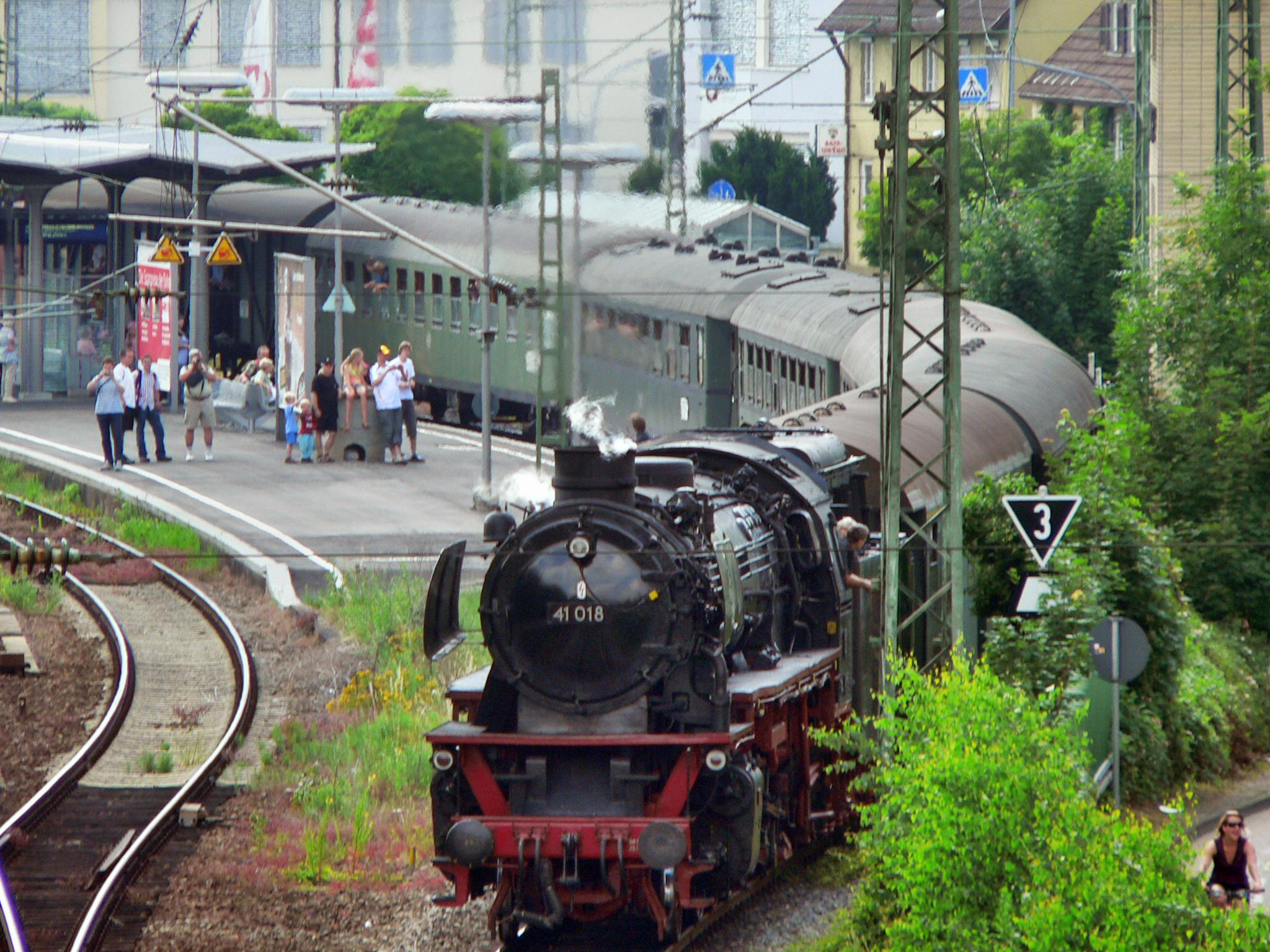 Train of the museum line Schwäbische Waldbahn Schorndorf - Welzheim, Germany. Locomotive 41018 in the station Schorndorf